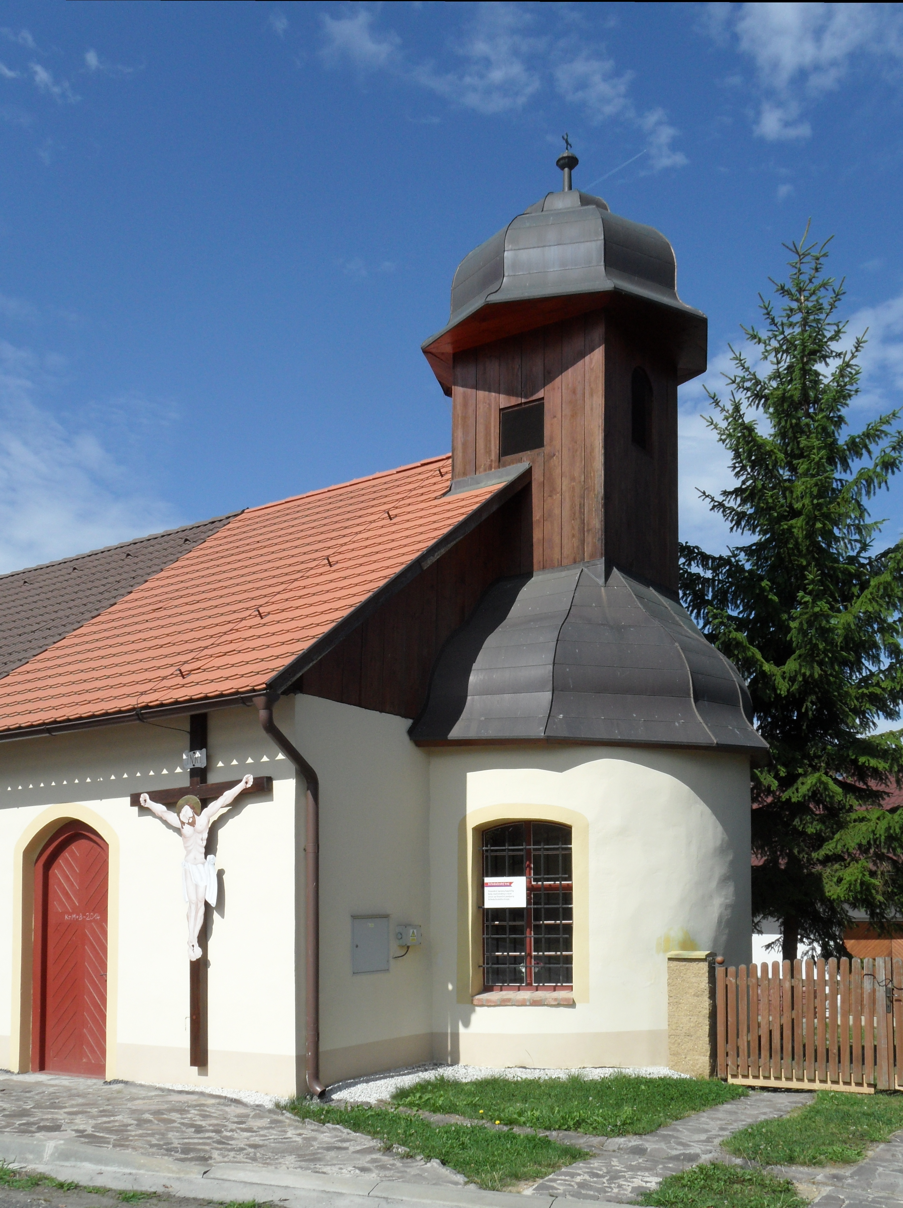 Vlastějovice A. House No 1 with Chapel (Cultural Monument), Kutná Hora District, the Czech Republic.